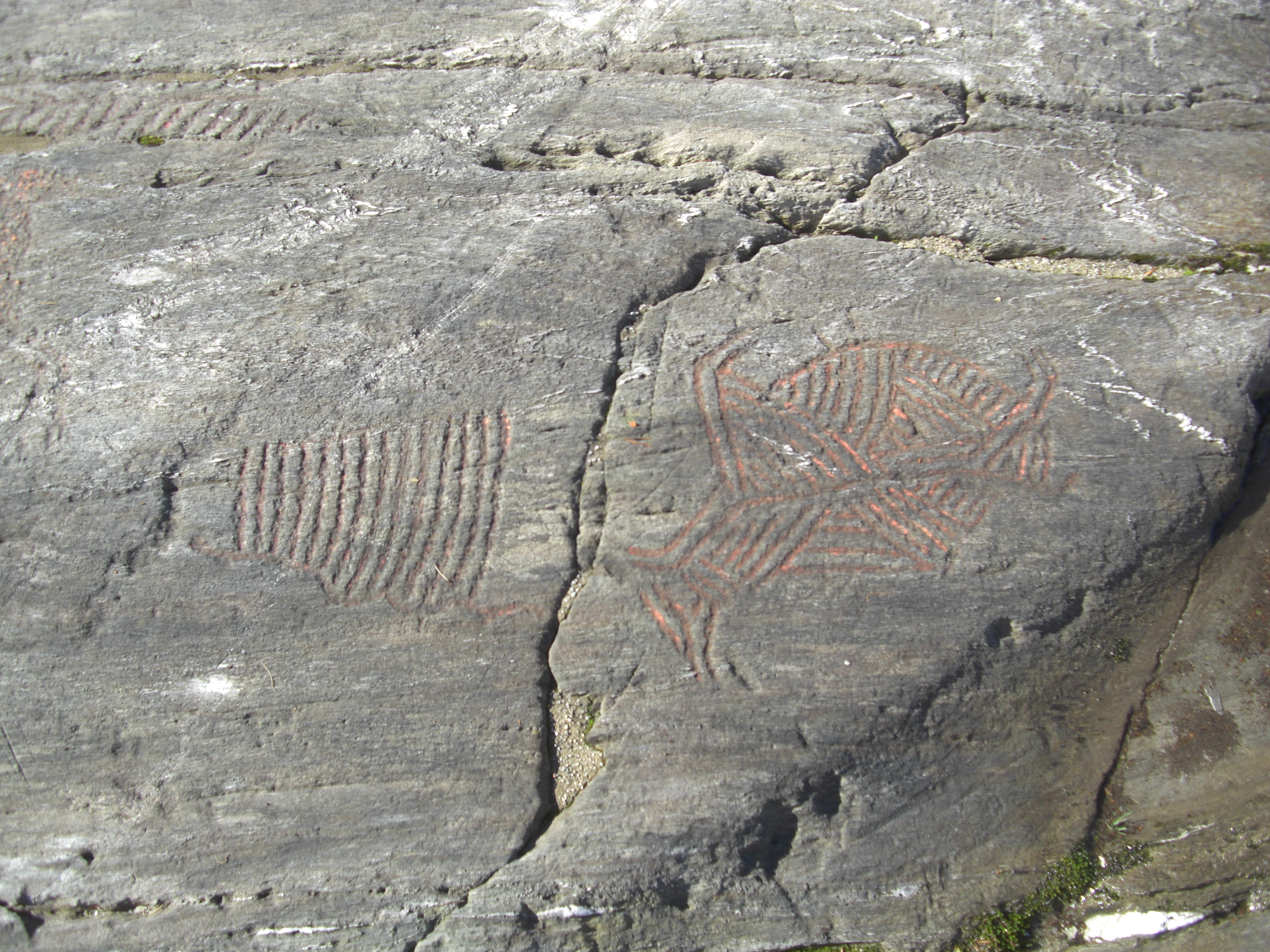 Rock carving at Ausevik